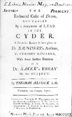 "The endemial colic of Devonshire not caused by a solution of lead in the cyder", by Thomas Alcock ; Alcock was a cleric and a cider maker who wished to rebutt the claims of Baker that the Devon colic was caused by lead poisoning from drinking cider